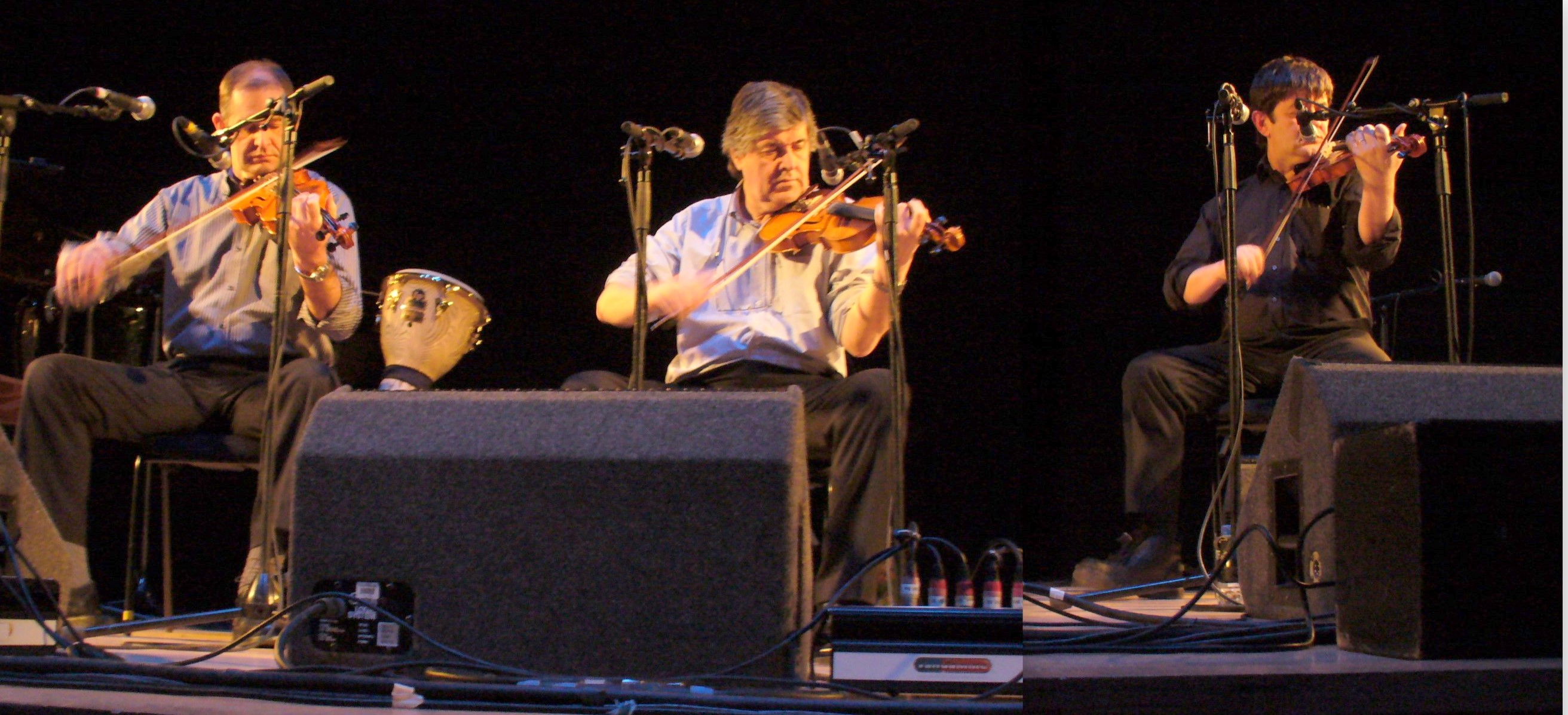 The Glackins